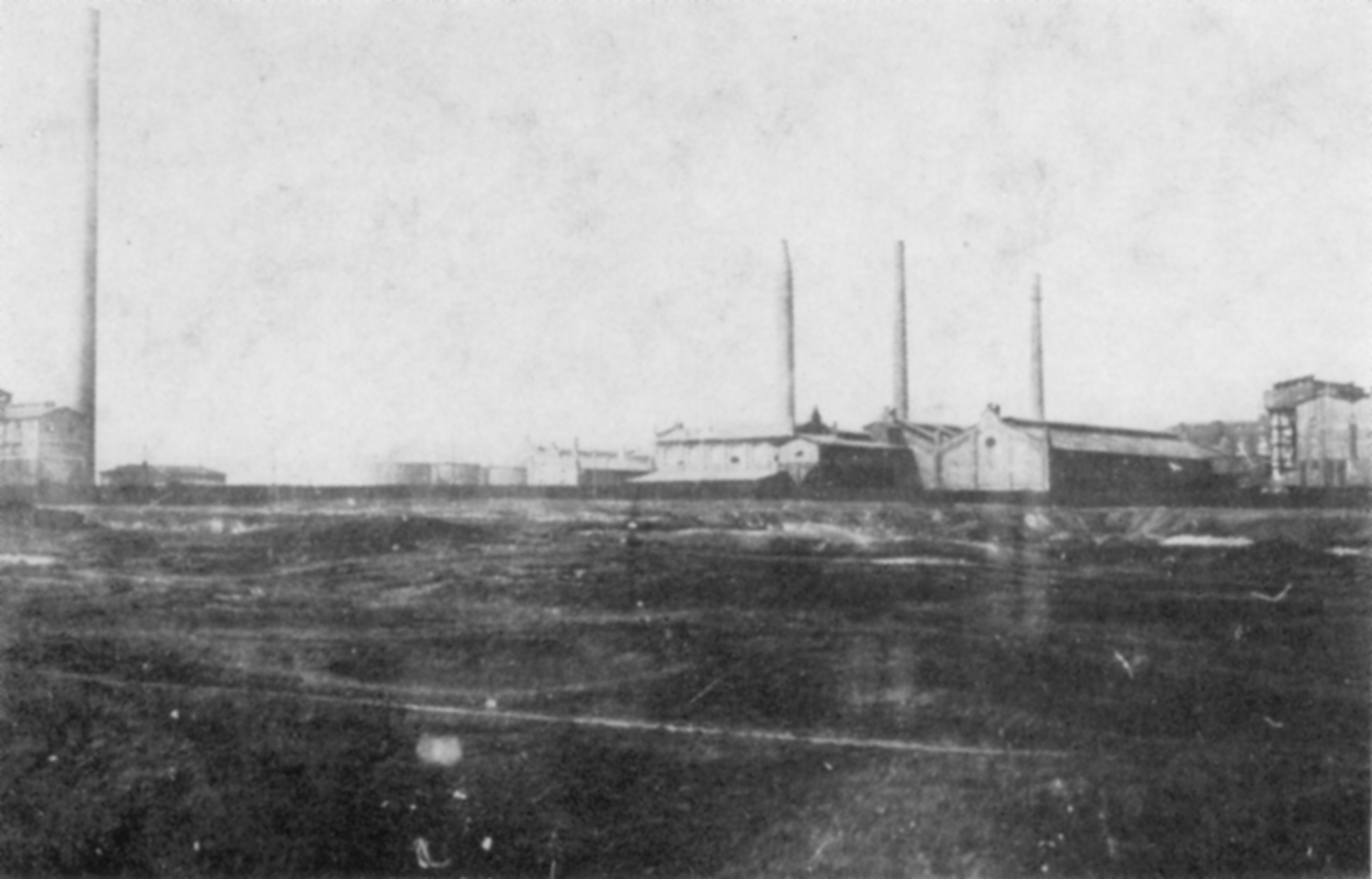 Scheller (Joanna) zinc smelter in Siemianowice Śląskie, Poland.